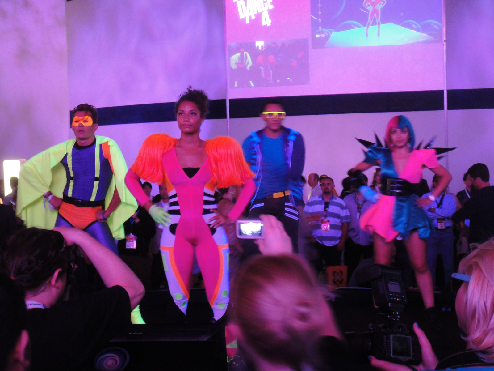 E3 Expo 2012 - Ubisoft Just Dance 4